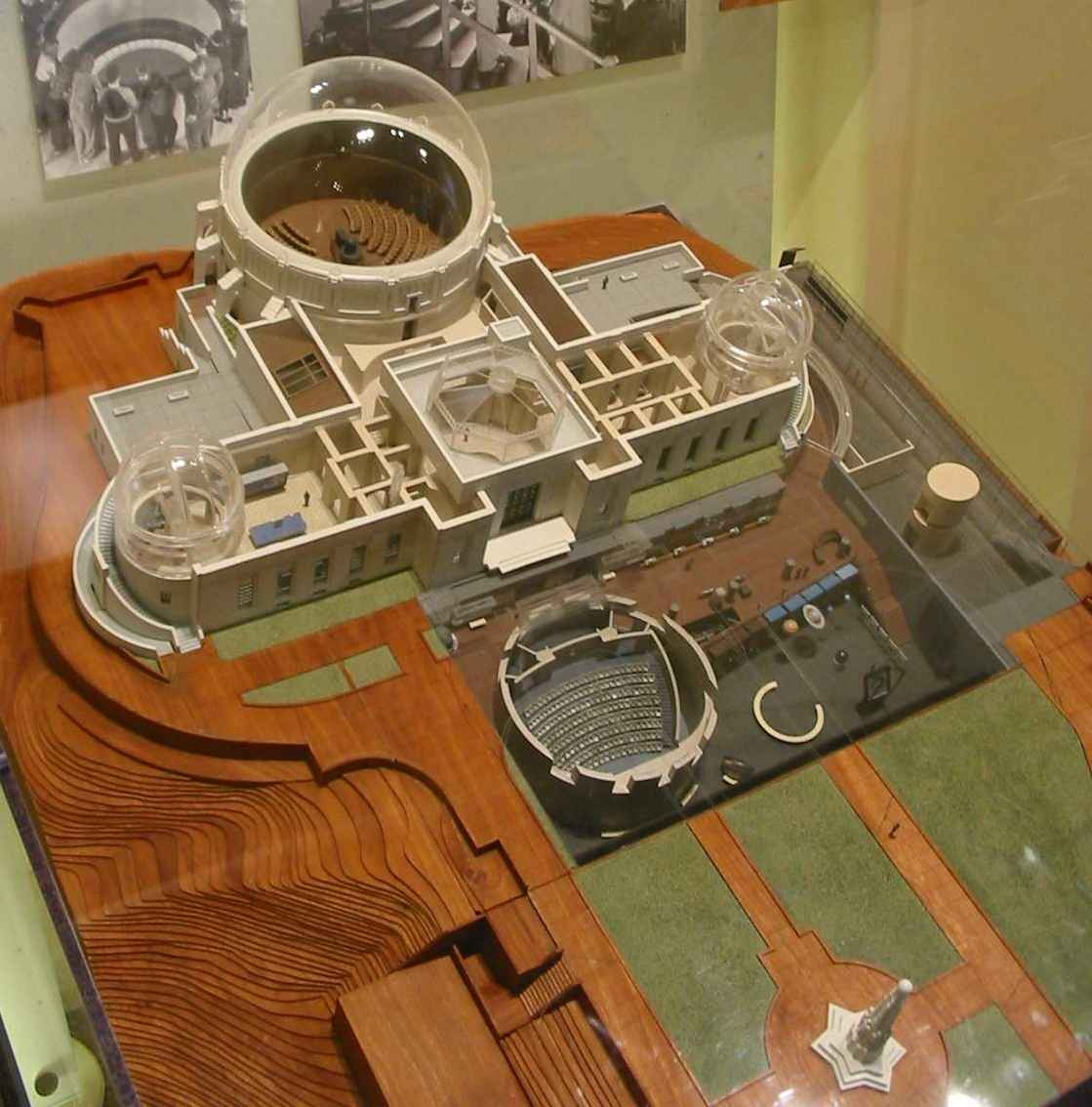 A model on display at the Griffith Observatory showing the new underground exhibits added to the Observatory during the 2002-2006 renovations.